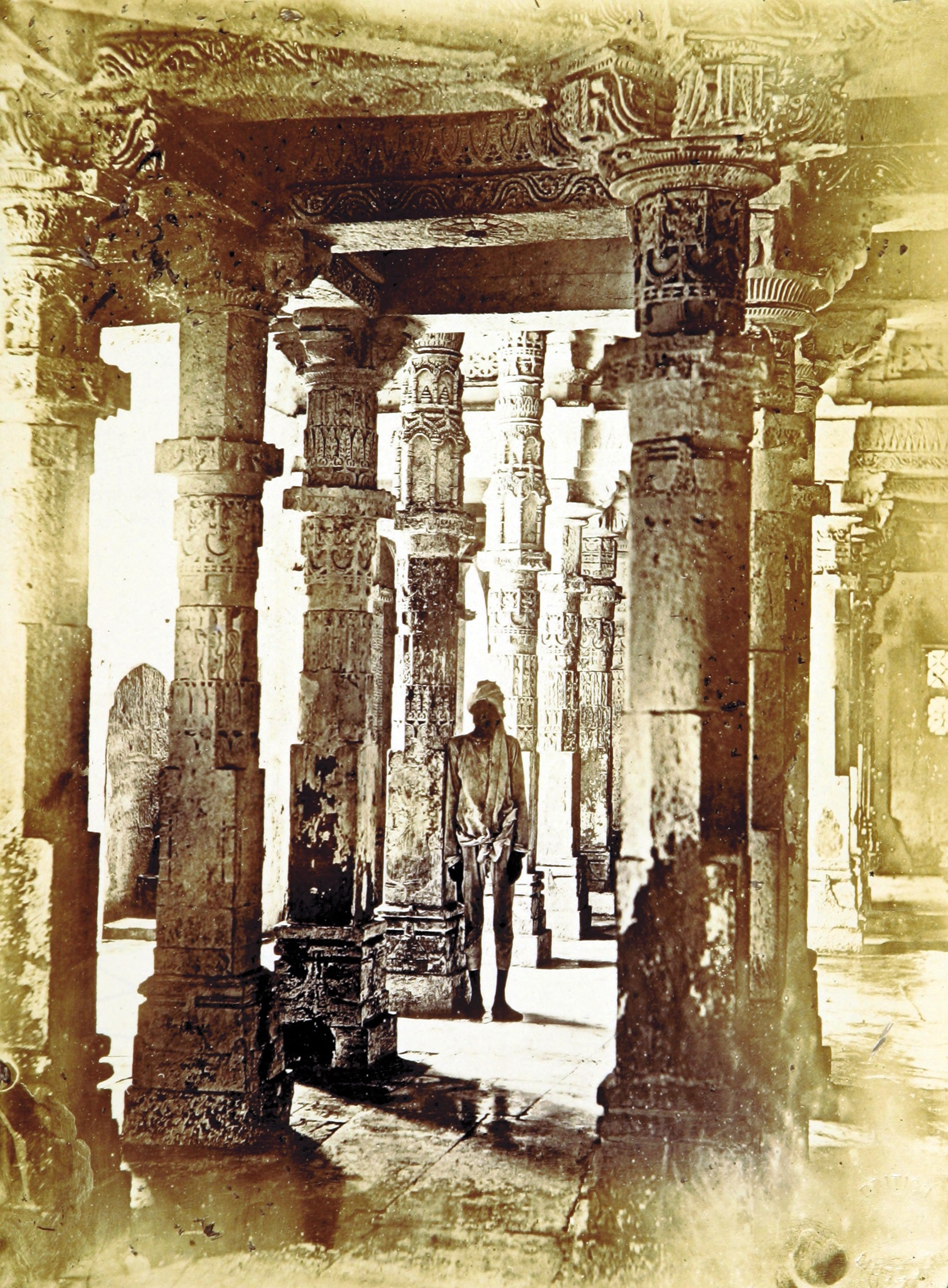 Image taken from: Title: "Architecture at Ahmedabad, the Capital of Goozerat, photographed by Colonel Biggs, ... With an historical and descriptive sketch, by T. C. H., ... and architectural notes by J. Fergusson, etc" Author: HOPE, Theodore Cracraft - Sir, K.C.S.I Contributor: BIGGS, Thomas. Contributor: FERGUSSON, James - Architect Shelfmark: "British Library HMNTS 10057.f.17.", "British Library OC V 6665" Page: 135 Place of Publishing: London Date of Publishing: 1866 Issuance: monographic Identifier: 001730119 Note: The colours, contrast and appearance of these illustrations are unlikely to be true to life. They are derived from scanned images that have been enhanced for machine interpretation and have been altered from their originals. If you wish to purchase a high quality copy of the page that this image is drawn from, please order it here. Please note that you will need to enter details from the above list - such as the shelfmark, the page, the book's volume and so on - when filling out your order. Following this or the link above will take you to the British Library's integrated catalogue. You will be able to download a PDF of the book this image is taken from, as well as view the pages up close with the 'itemViewer'. Click on the 'related items' to search for the electronic version of this work. Click here to see all the illustrations in this book and click here to browse other illustrations published in books in the same year. Please click on the tags shown on the right-hand side for other ways to browse the illustrations.